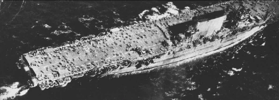 The the U.S. Navy aircraft carrier USS Saratoga (CV-3) during a "Magic Carpet" voyage to bring U.S. servicemen back to the U.S. from the Pacific in late 1945.